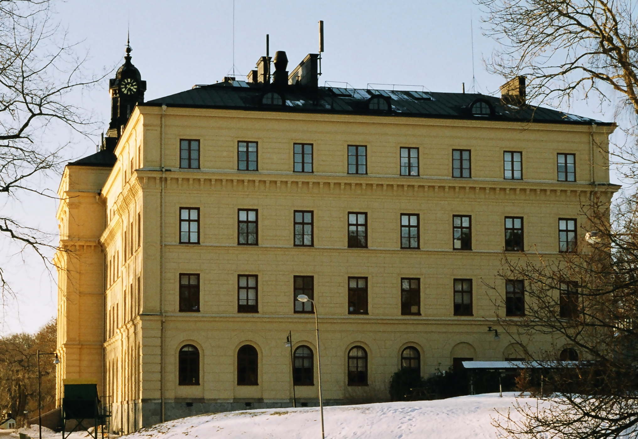 Manillaskolan från öster.